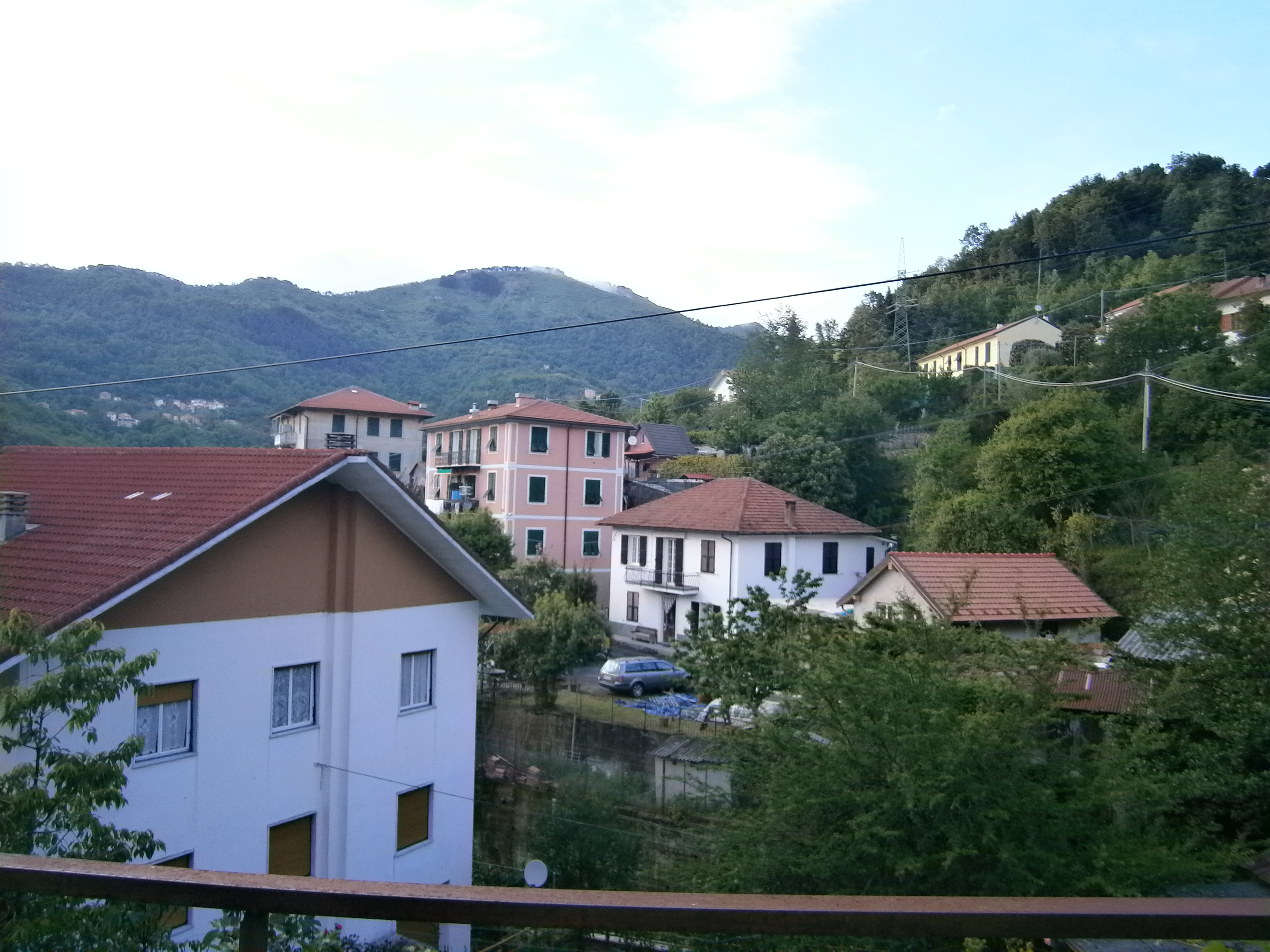 The panorama of Bargagli.